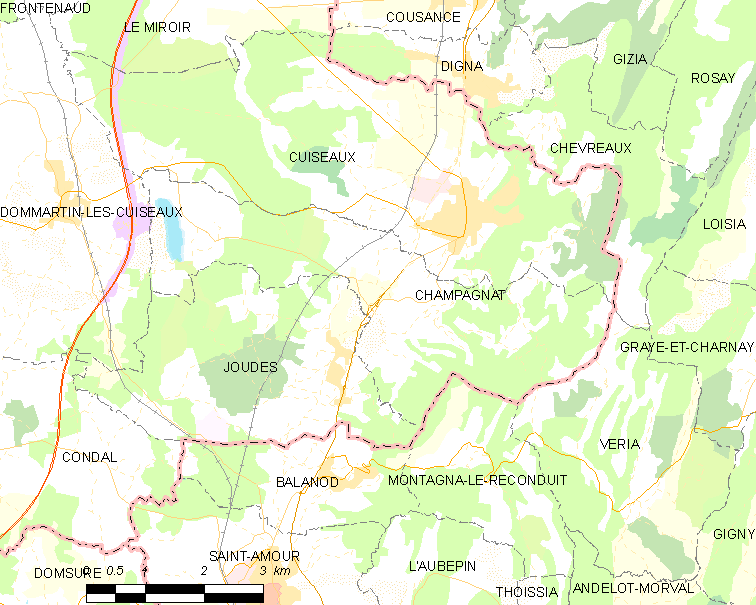 Map of French municipality